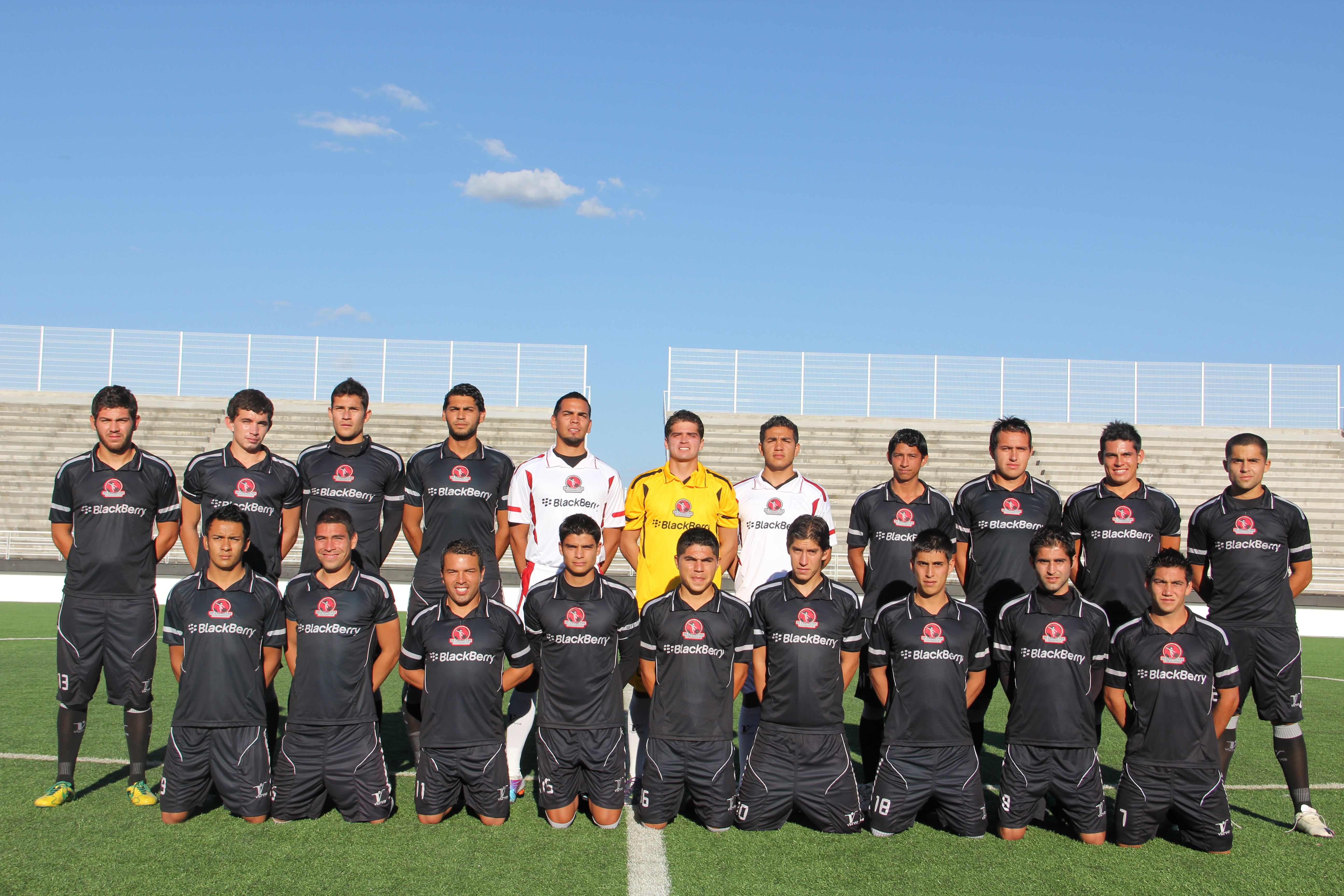 Players (Home Kit) Soccer Club Deportivo de los Altos Yahualica Photo taken at Stadium Las Animas, Yahualica JAL. MEX.